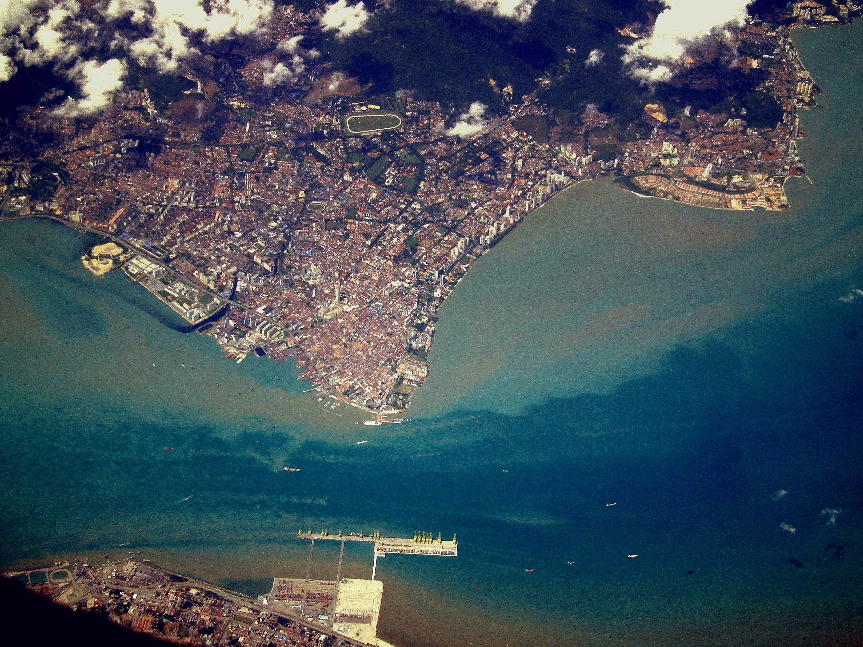 George Town, Penang Island photographed from 36 000 feet from an Airbus A320 on Air Asia flight FD3572 from Kuala Lumpur to Bangkok on 20 Oct 2010.